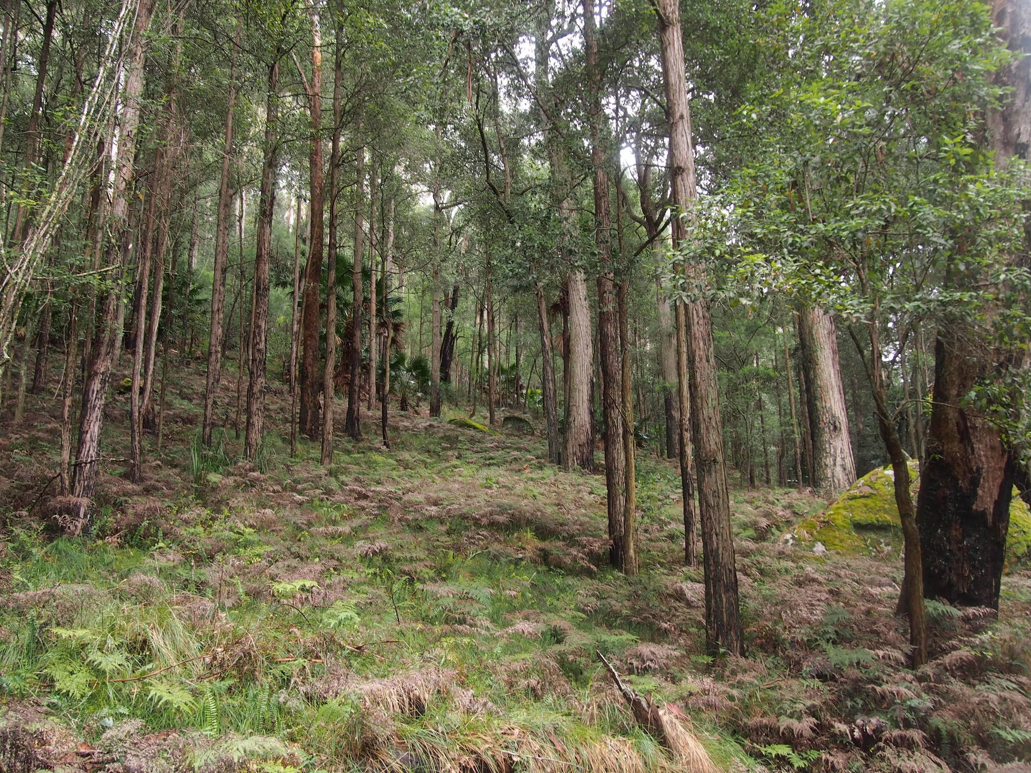 The Forrest Island